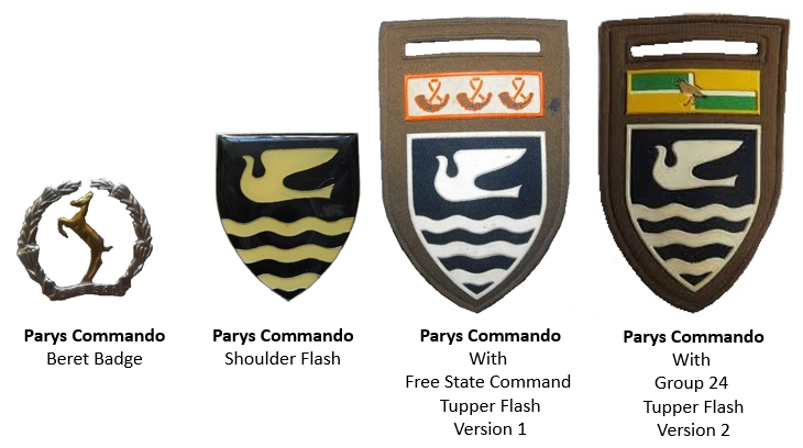 SADF Parys Commando insignia